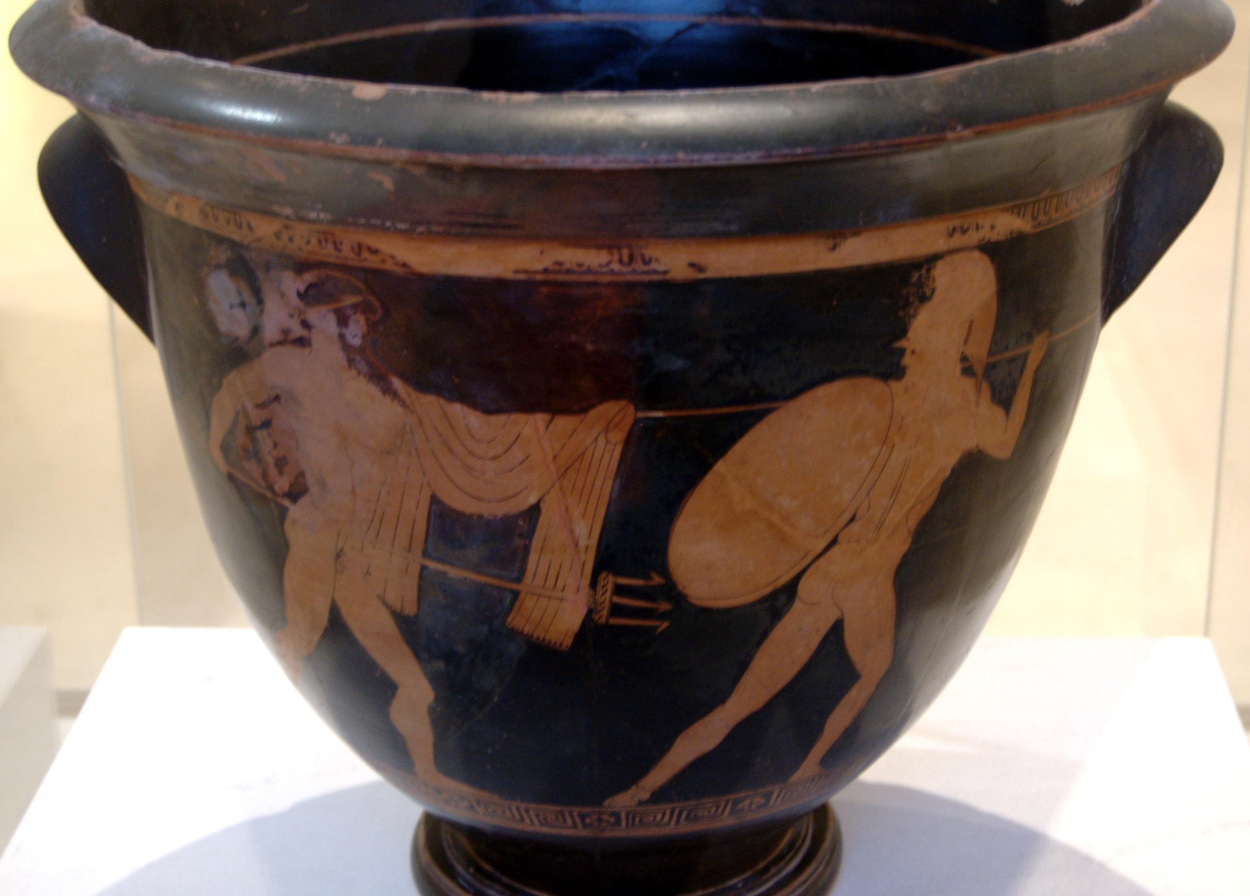 Gigantomachy: Poseidon fighting a Giant. Side B of an Attic red-figure bell-krater, 480–470 BC.